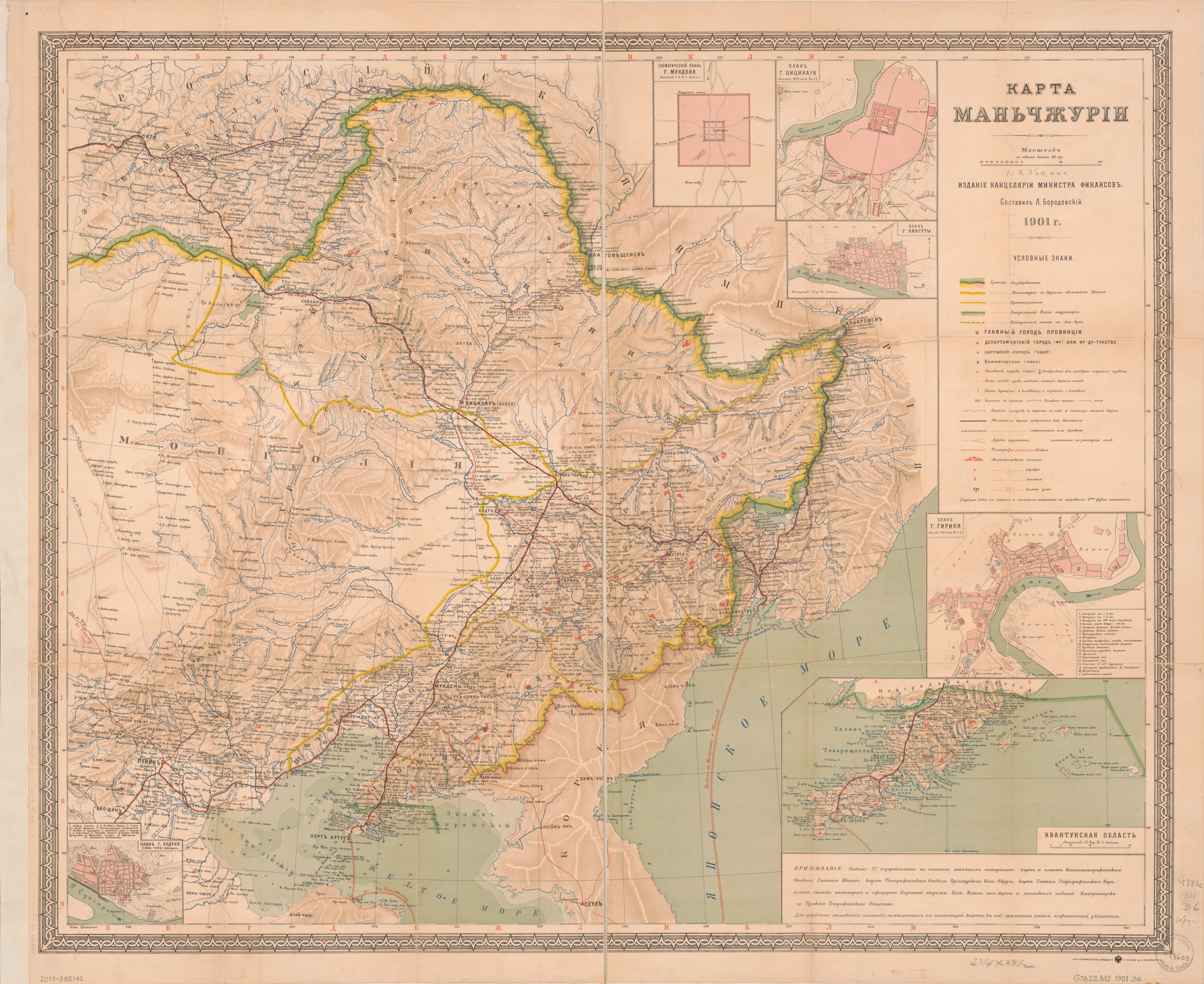 General-content map of Manchuria Relief shown by shading Title from head of legend In Russian LC sheet imperfect: Mounted on cloth backing, halved to enable folding to 64 x 39 cm, lead-pencil annotations. Accompanied by text/index (S.-Peterburg : Tipografīi︠a︡ V. Kirshbauma, 1901. 33 pages. 22 cm) Includes text, inset of "Kvantunskai︠a︡ oblastʹ" (Liaodong Peninsula), and 5 city insets (some with index to points-of-interest) Available also through the Library of Congress Web site as a raster image.